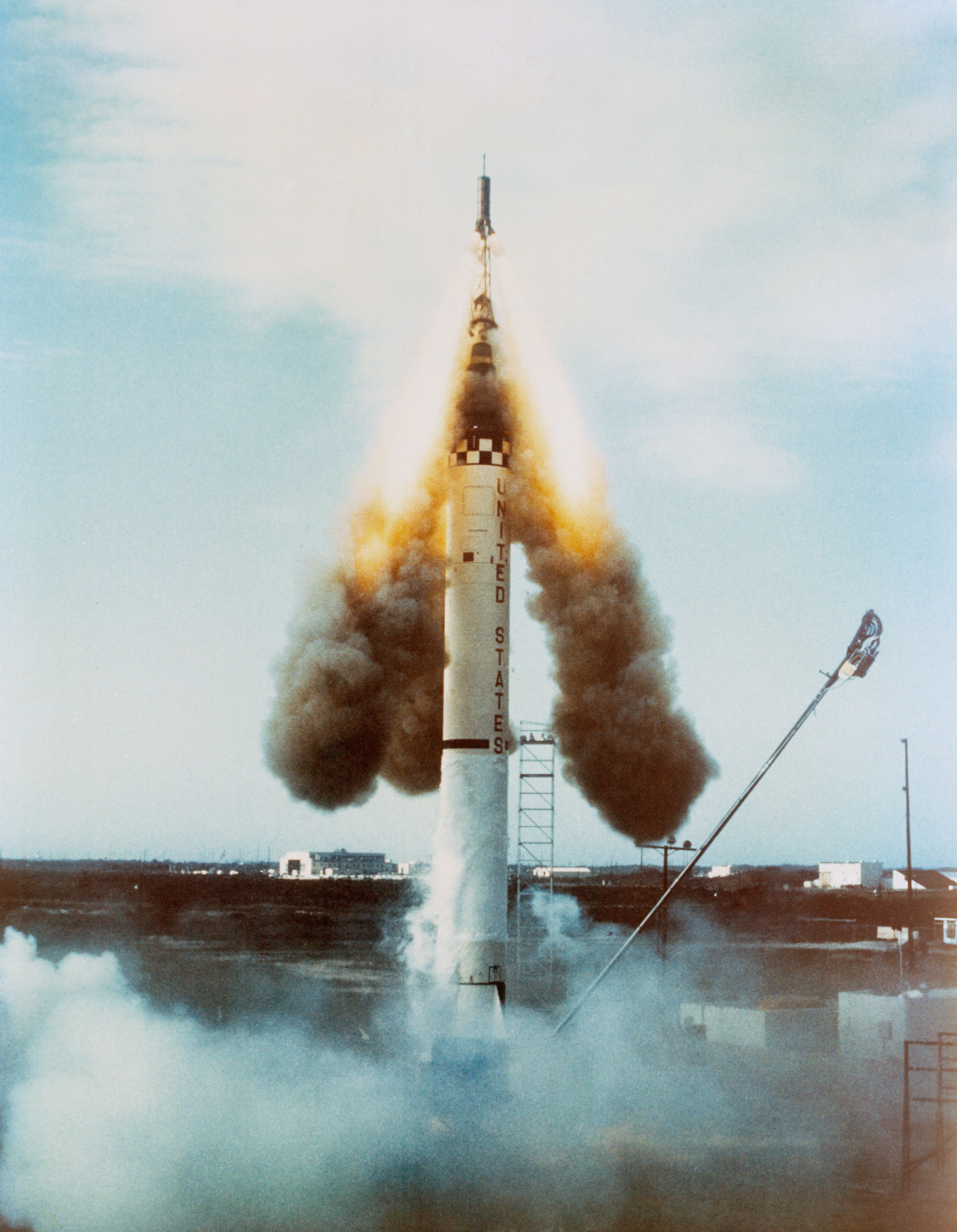 Failed launch of the Mercury-Redstone 1 launch vehicle. While the booster umbilical is still falling toward the ground, an electrical fault causes the booster's engine to shut down and triggers the Mercury capsule's escape rocket to jettison itself. The booster rises only 4 inches before settling back onto the pad, and the capsule remains attached to the booster. (Note this photo is misdated and misidentified in NASA's photo archives.)